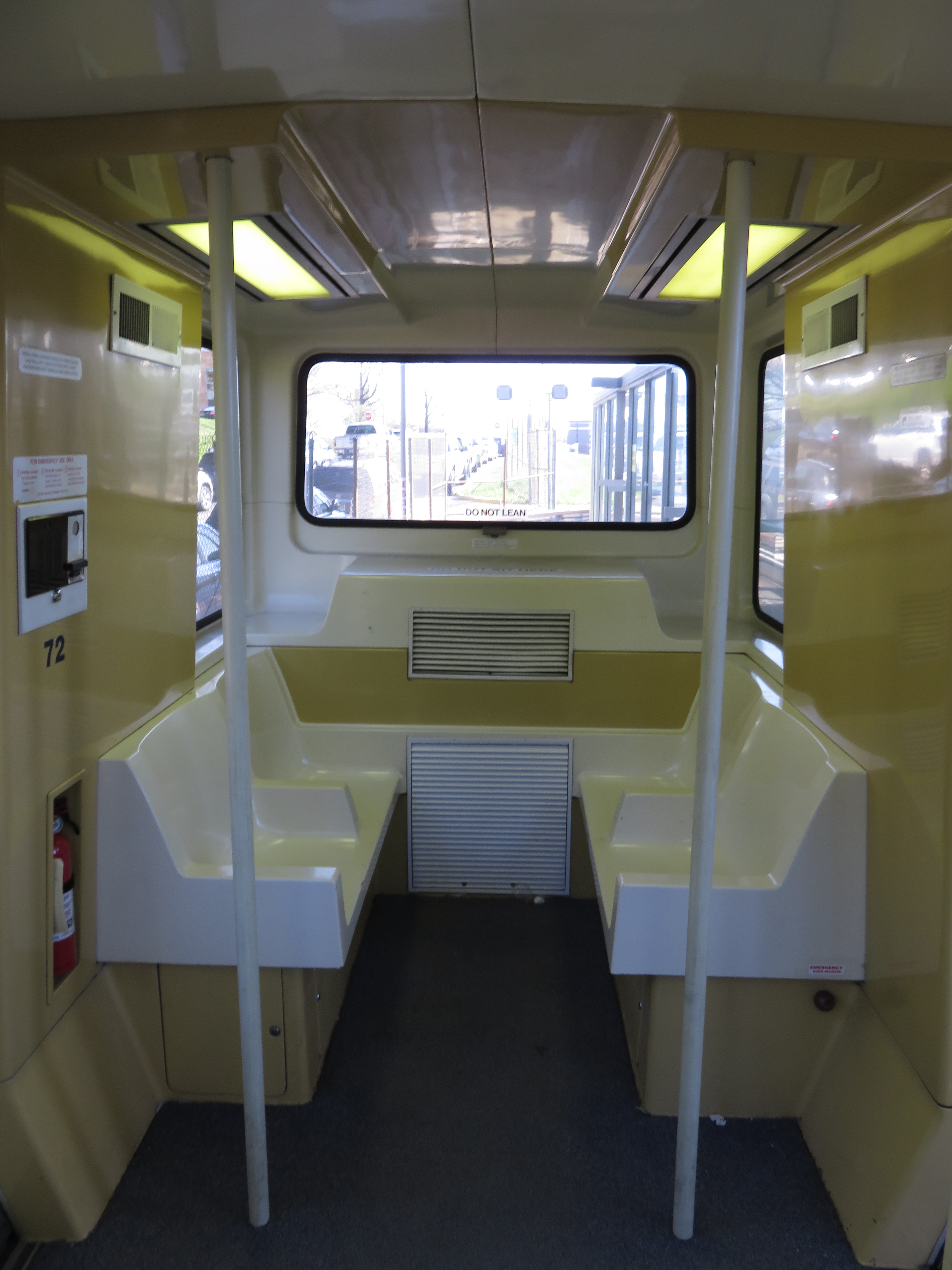 Interior of Morgantown Personal Rapid Transit car in Morgantown, West Virginia in 2017